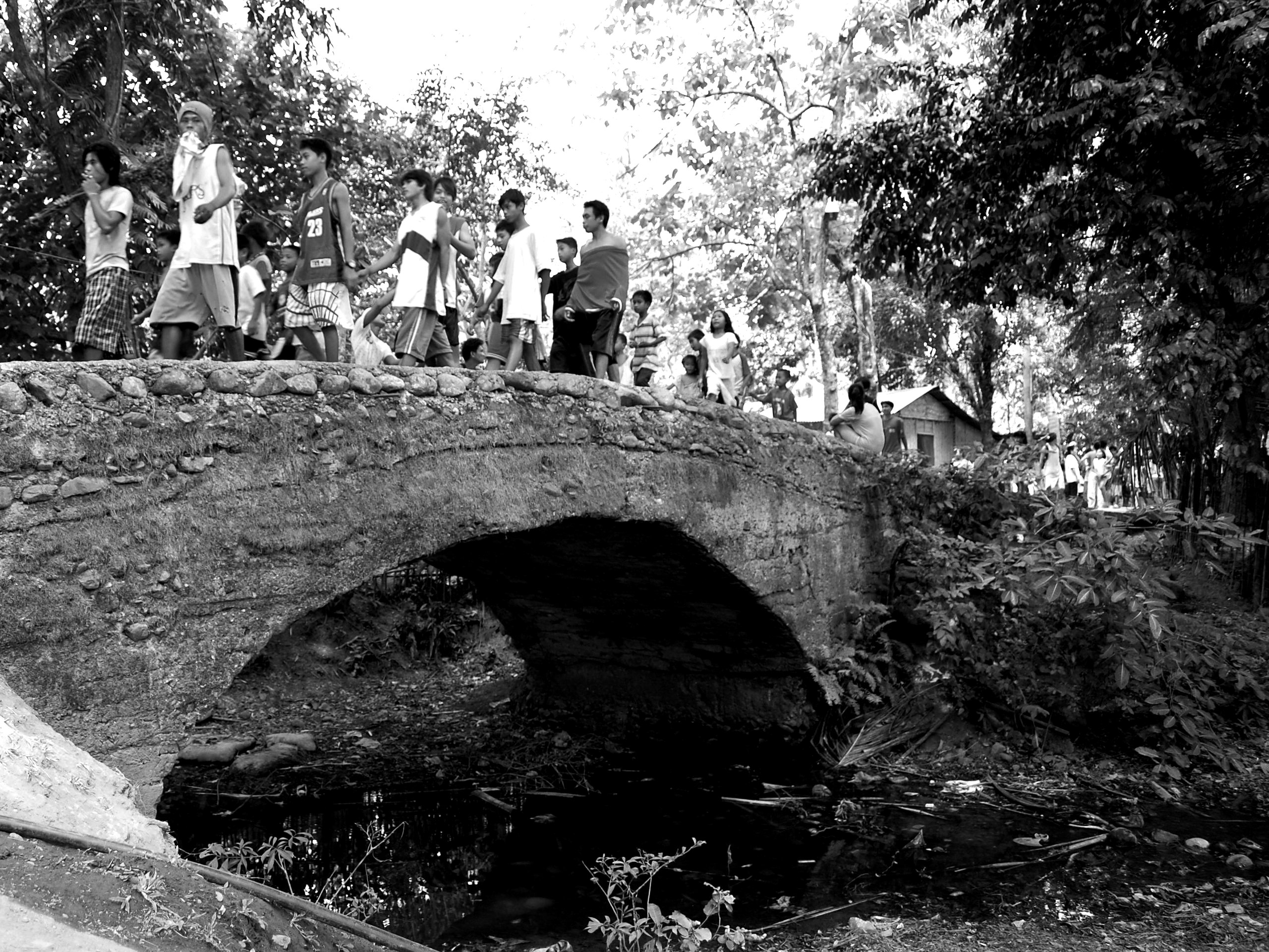 A Spanish-built bridge still in use is the sole reminder of Puncan’s better days. Nikon D40 (Puncan Good Friday, April 2009)